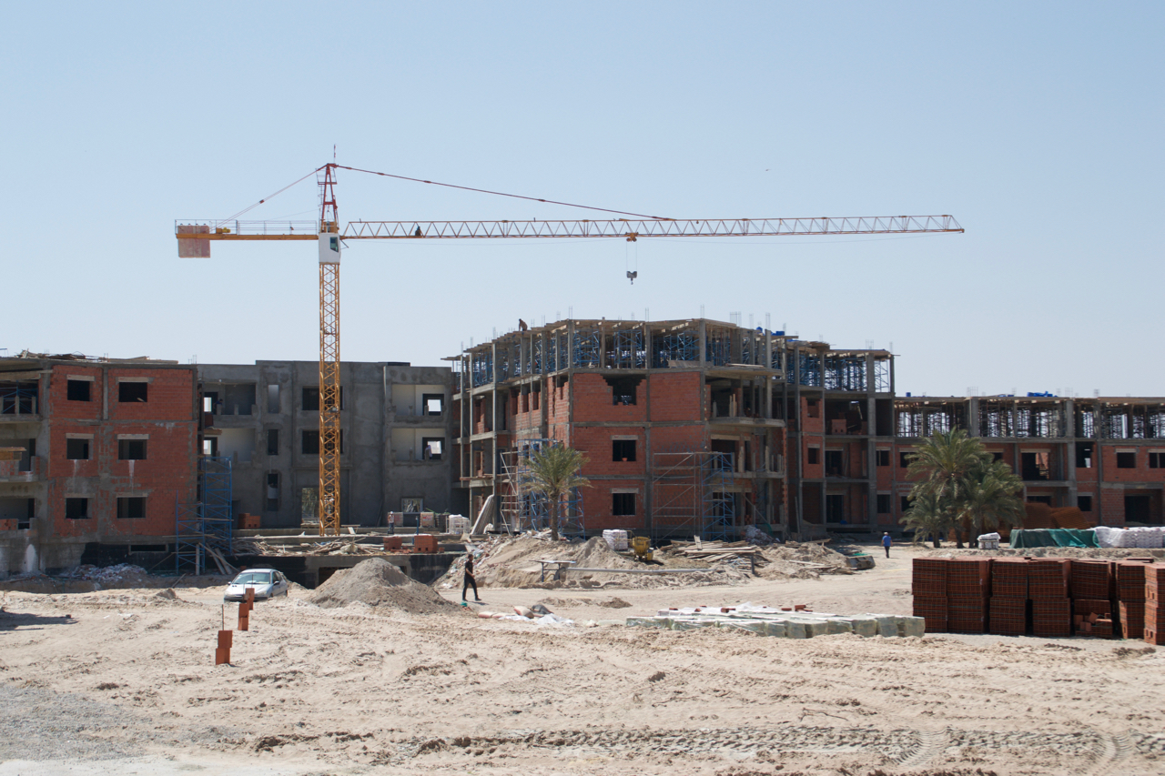 Construction in Tunisia